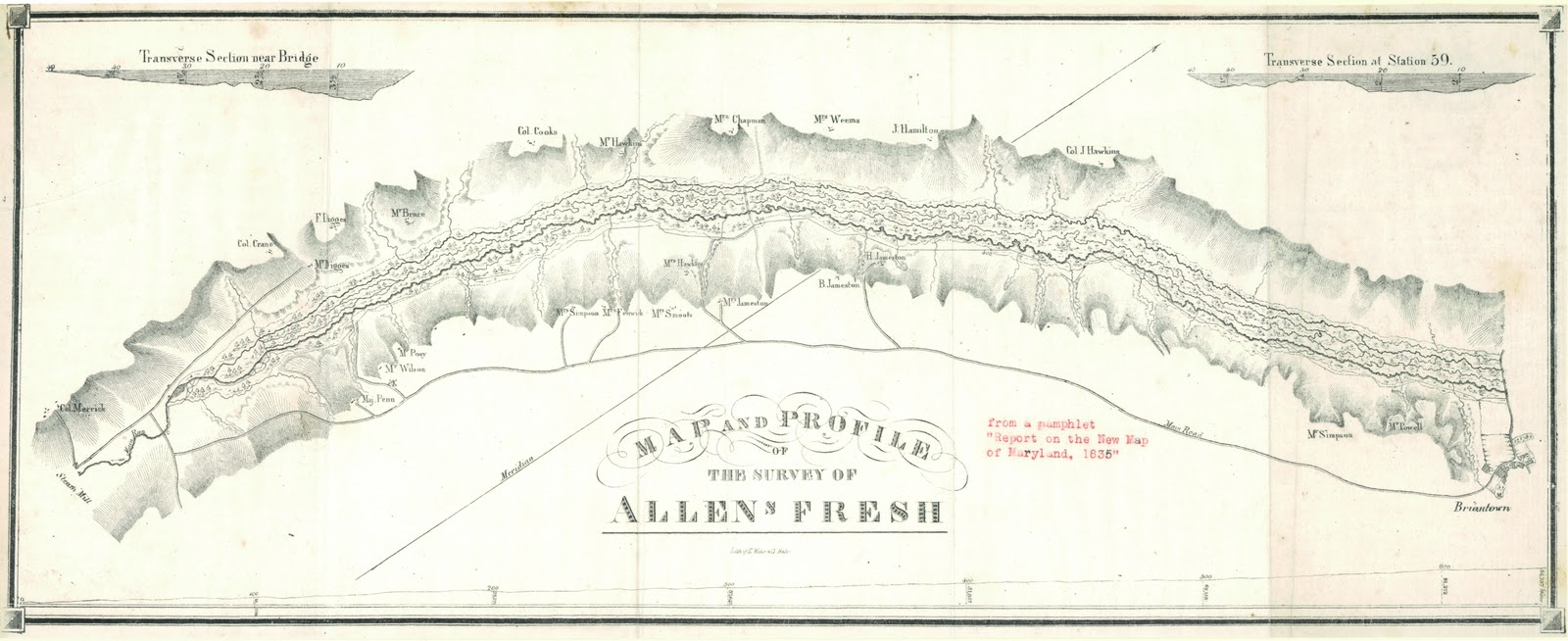 The first cartographically correct map of Zekiah Swamp. The originals drawings are privately owned. This version is a reduced copy of the original published by the State of Maryland.